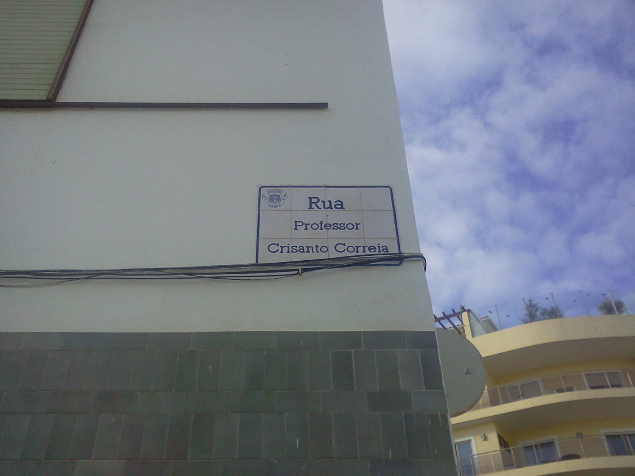 Street sign of Rua Crisanto Correia, in the city of Lagos, in southern Portugal.